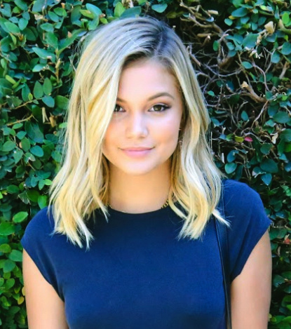 A 2016 photo of American actress and singer Olivia Holt.